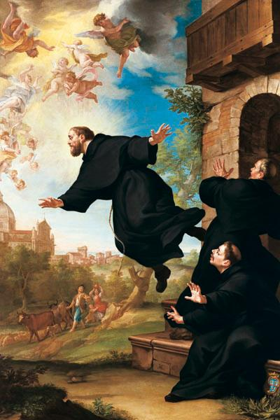 featuring Saint Joseph of Cupertino